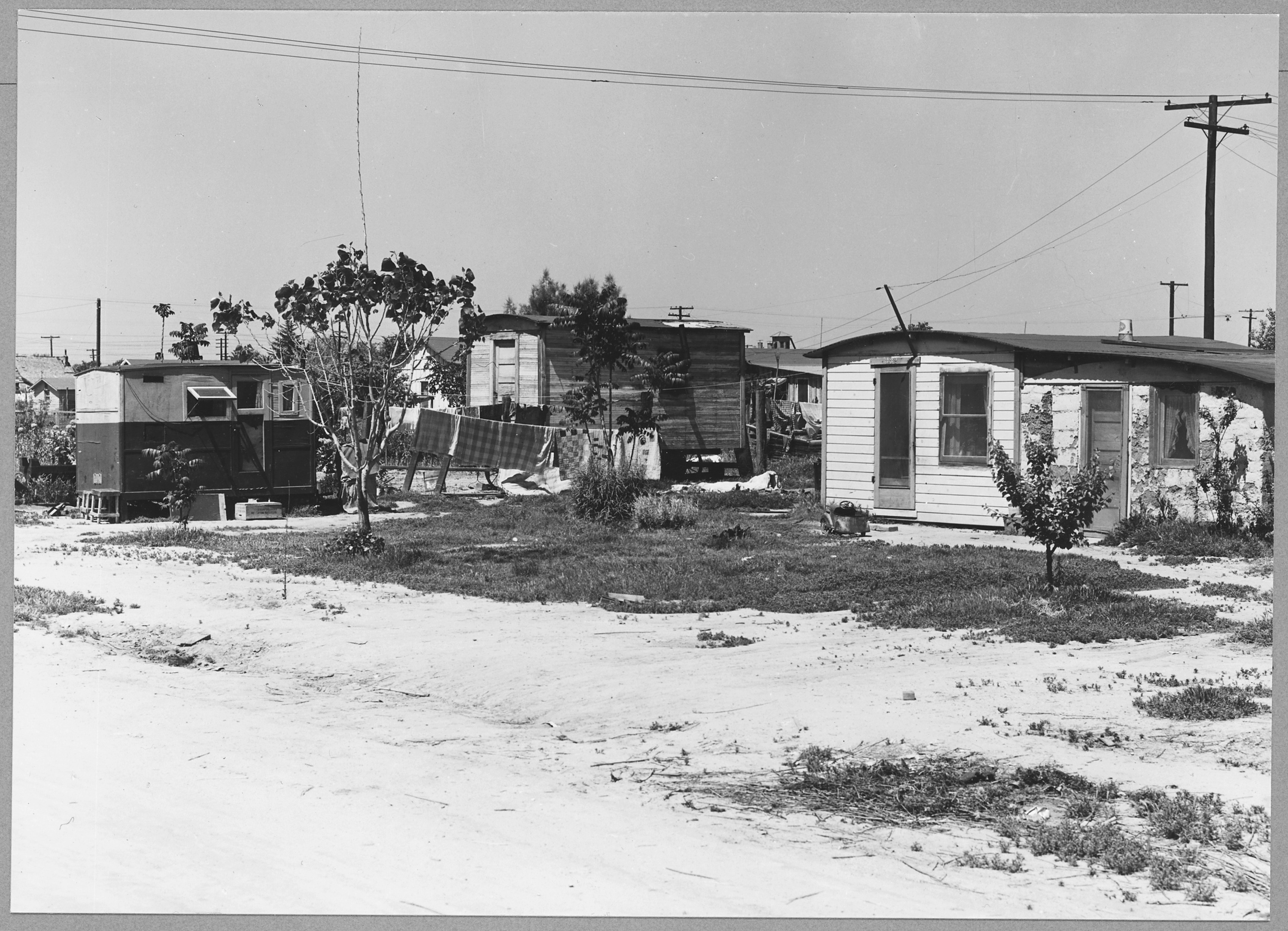 Scope and content: Full caption reads as follows: McFarland, Kern County, California. Homes in McFarland shacktown.